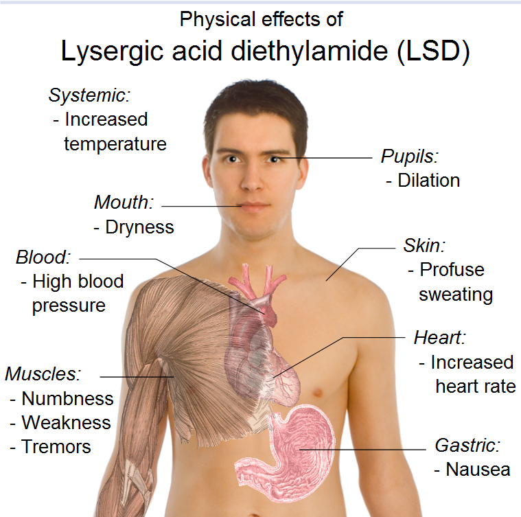 Possible physical effects of lysergic acid diethylamide (LSD). Sources are found in main article: Wikipedia:Lysergic_acid_diethylamide#Physical. Model: Mikael Häggström. To discuss image, please see Template_talk:Häggström diagrams List of effects Dilated pupils[1] Increased temperature [1] Increase heart rate [1] High blood pressure[1] Profuse sweating[1] Dry mouth[1] Tremors[1] Numbness[2] Weakness[2] Nausea[2] References ↑ a b c d e f g NIDA InfoFacts: Hallucinogens - LSD, Peyote, Psilocybin, and PCP The National Institute on Drug Abuse (NIDA). Revised 06/09 ↑ a b c Schiff PL (2006). "Ergot and its alkaloids". American journal of pharmaceutical education 70 (5): 98. PMID 17149427.